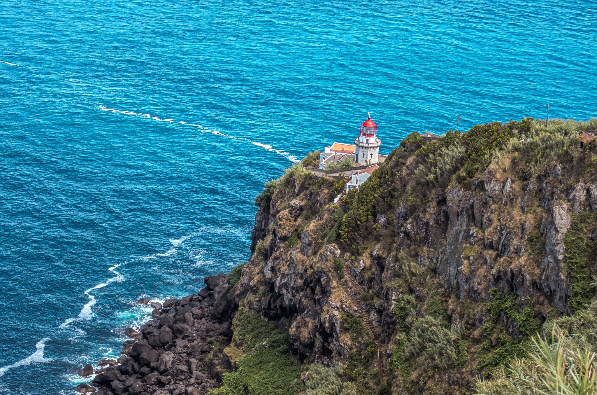 500px provided description: The Ponta do Arnel Lighthouse is located on the northeast of the island of Sao Miguel, in the Azores, Portugal. [#sky ,#landscape ,#red ,#hdr ,#sea ,#water ,#nature ,#beach ,#travel ,#island ,#blue ,#lighthouse ,#ocean ,#rock ,#vacation ,#outdoor ,#tourism ,#summer ,#isolated ,#mar ,#black ,#sight ,#shore ,#seascape ,#cliff ,#seashore ,#outdoors ,#scenic ,#Portugal ,#Island ,#Azores ,#A?ores ,#S.Miguel ,#Nordeste ,#Farol do Arnel]